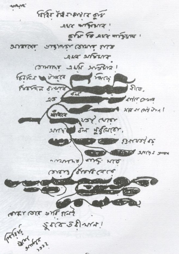 A manuscript of Rabindranath Tagore's (1861-1941) work.